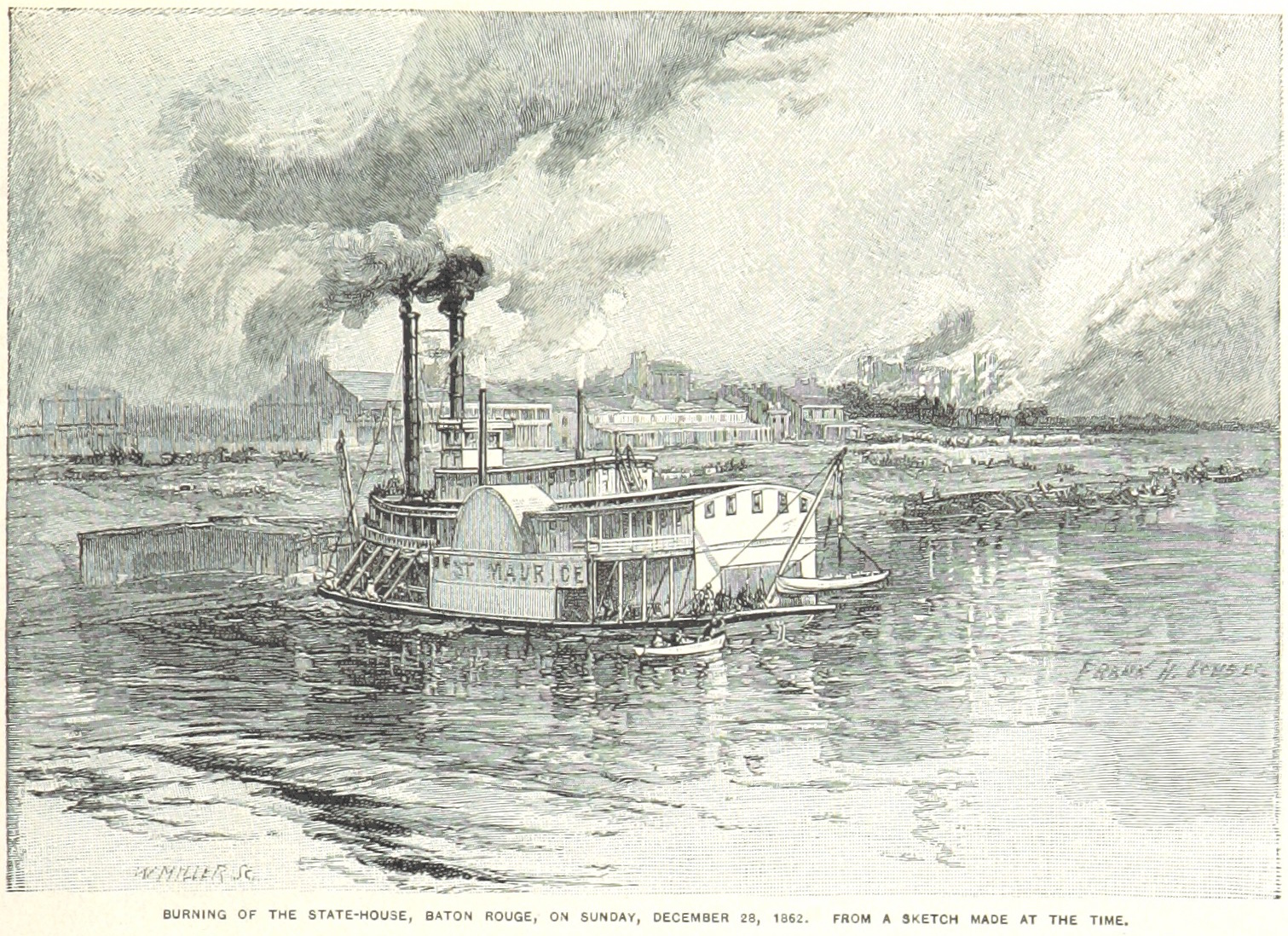 The Old Louisiana State Capitol burns on 28 December 1862, during the Union occupation of Baton Rouge.